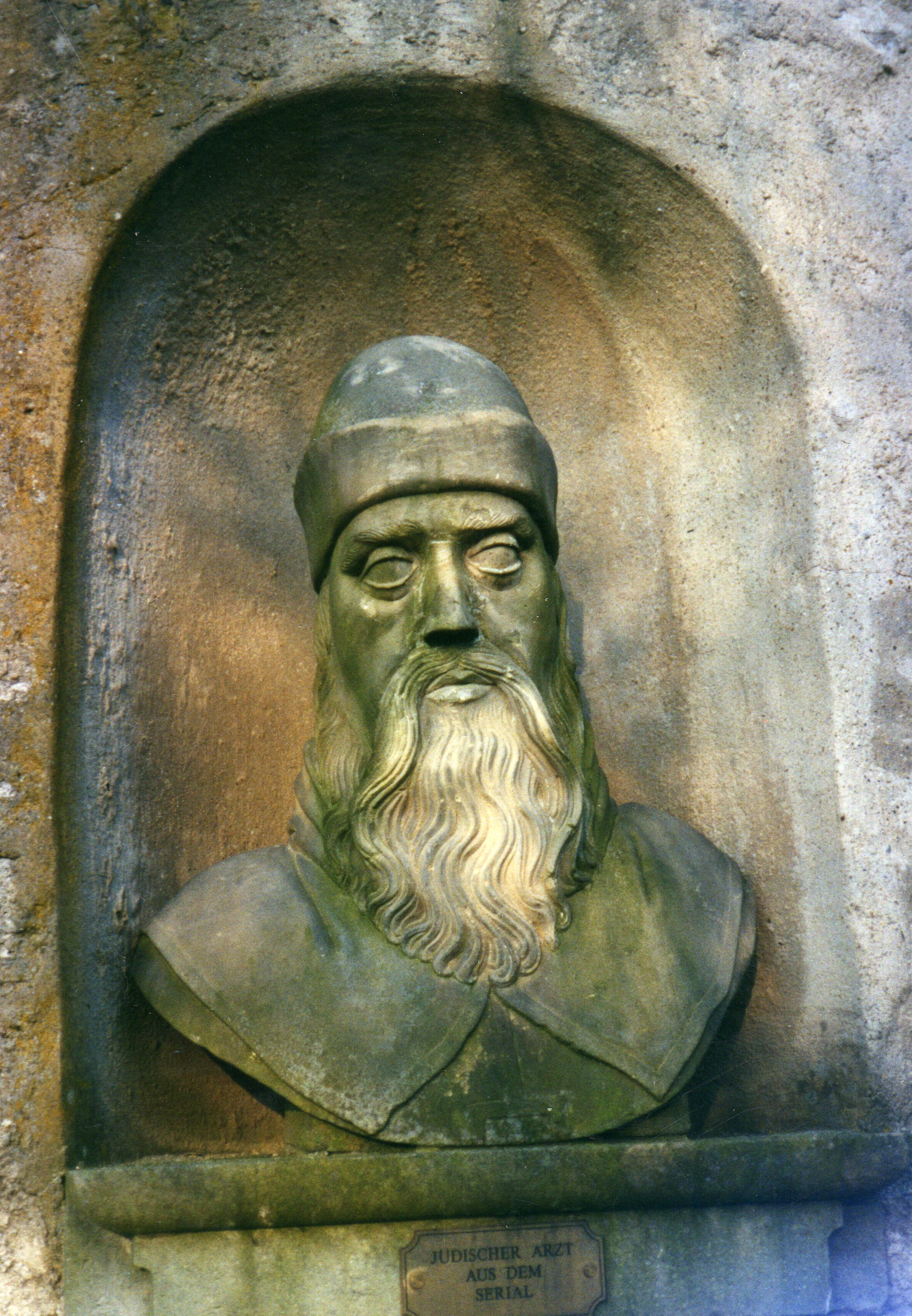 Statue in park of Schloss Kromsdorf